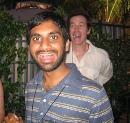 Photo of comedian Aziz Ansari taking in September of '08. depicted person: Aziz Ansari (age: 25)